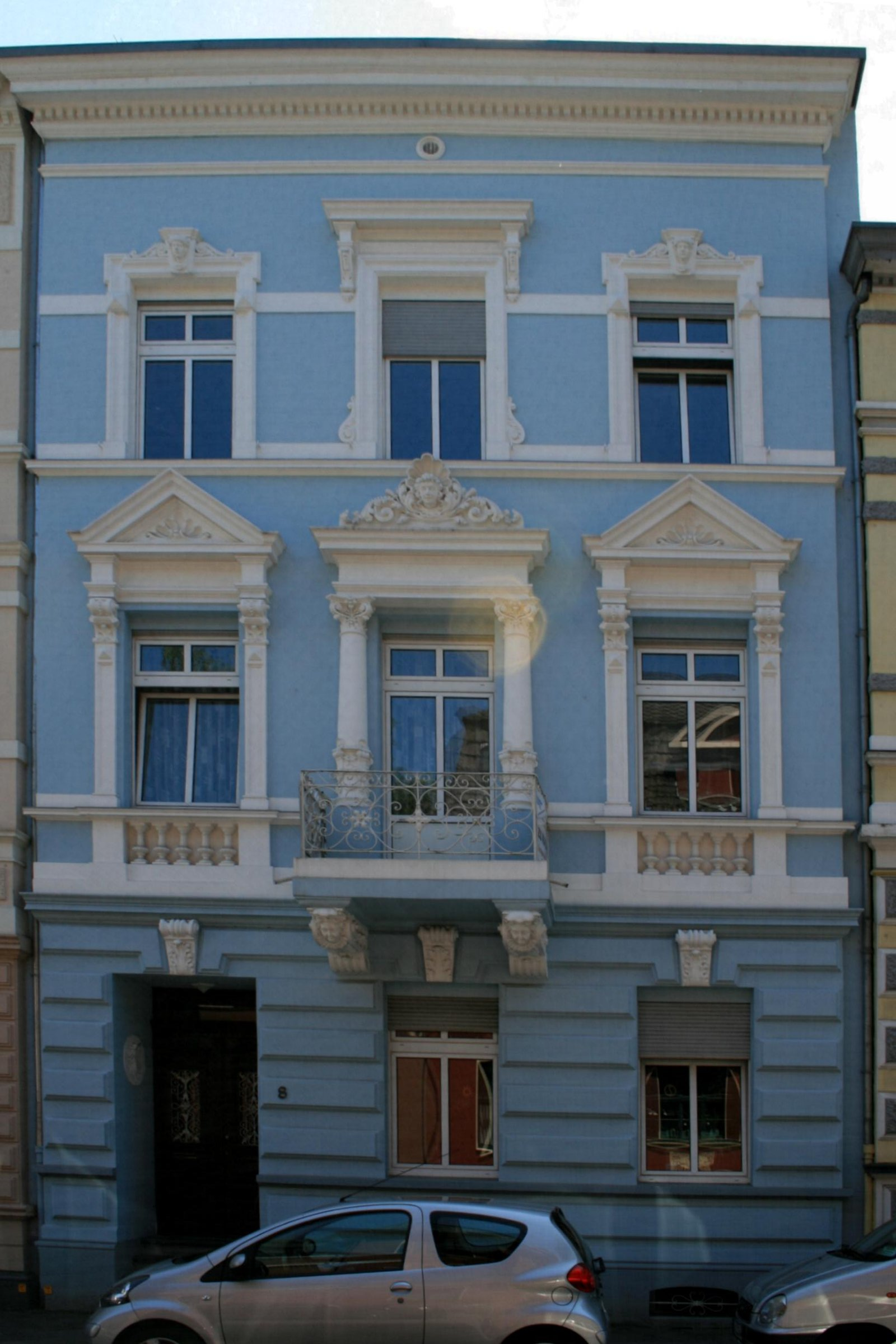 Cultural heritage monument No. F 008 in Mönchengladbach